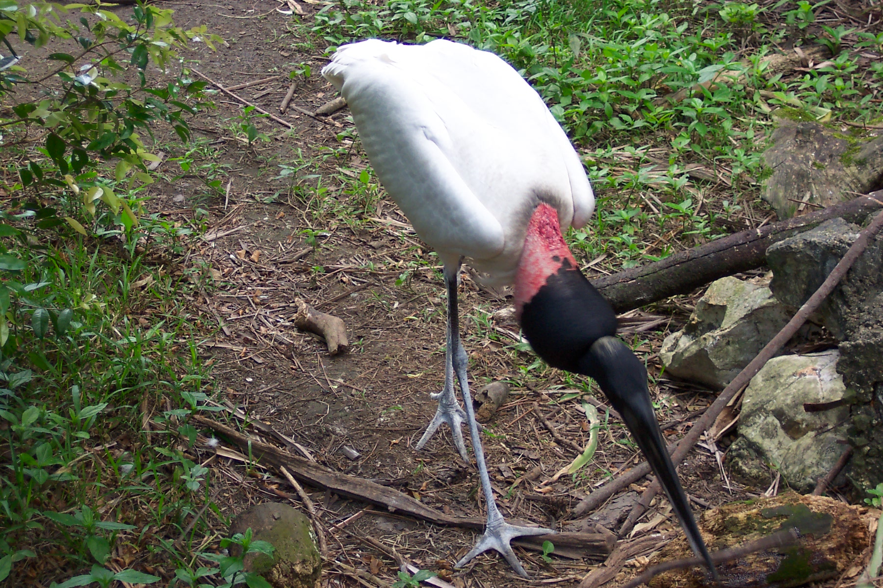 A Jabiru stork, taken at the Belize Zoo. This image was taken by me, with my camera, and is released to the public domain.